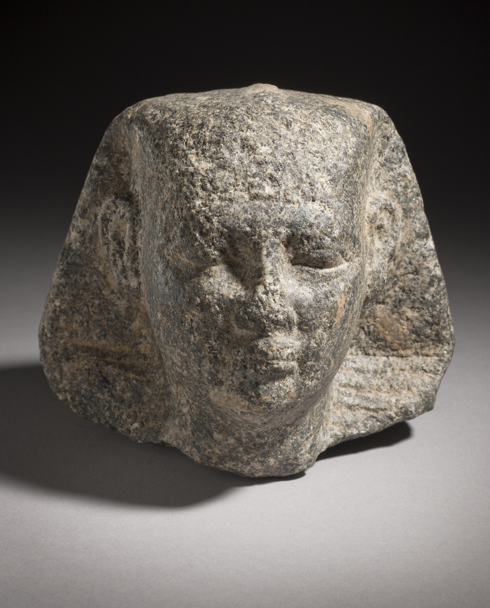 Egypt, 5th Dynasty, reign of Nyuserre, 2474-2444 B.C. Sculpture Granite Height: 4 3/4 in. (12.07 cm) William Randolph Hearst Collection (51.15.6) Egyptian Art Currently on public view: Hammer Building, floor 3